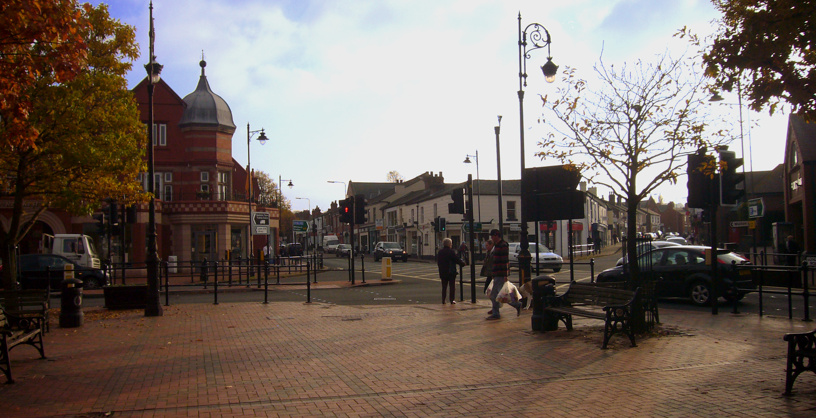 View of Victoria Square, London Road, Stockton Heath, Warrington. Taken from The Mulberry Tree in November 2008. Photograph by